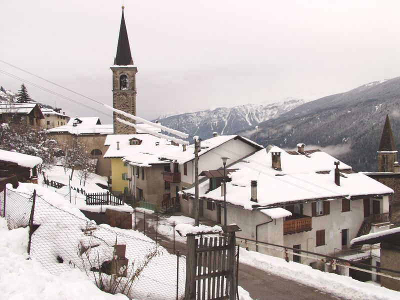 Chiesa vista dalla località Fec'